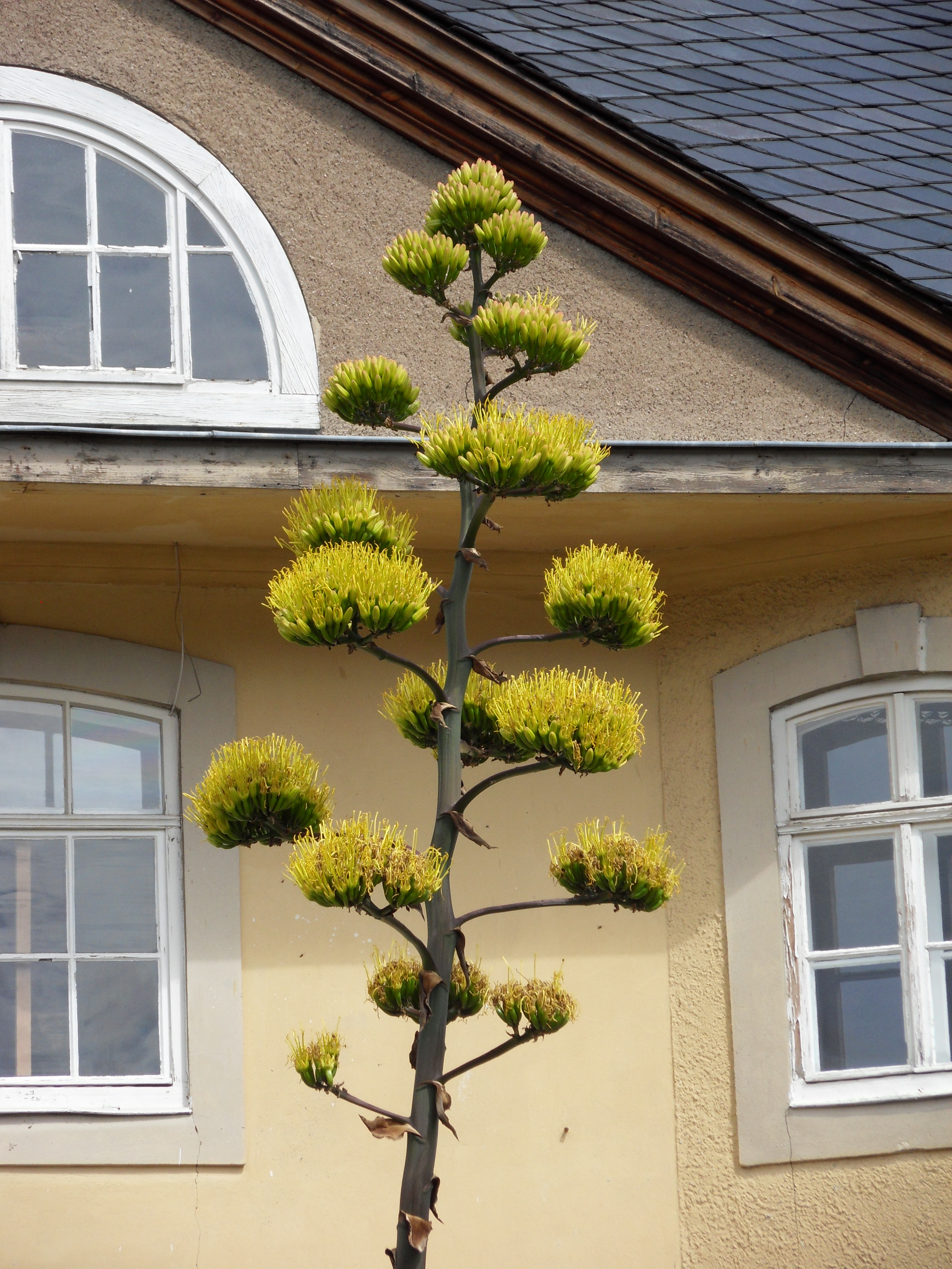 Blossom of Agave salmiana var. ferox, 2010 Orangerie yard in Belvedere Park Weimar/Germany